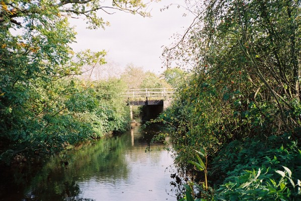 Cokeley Bridge, over The Cut.